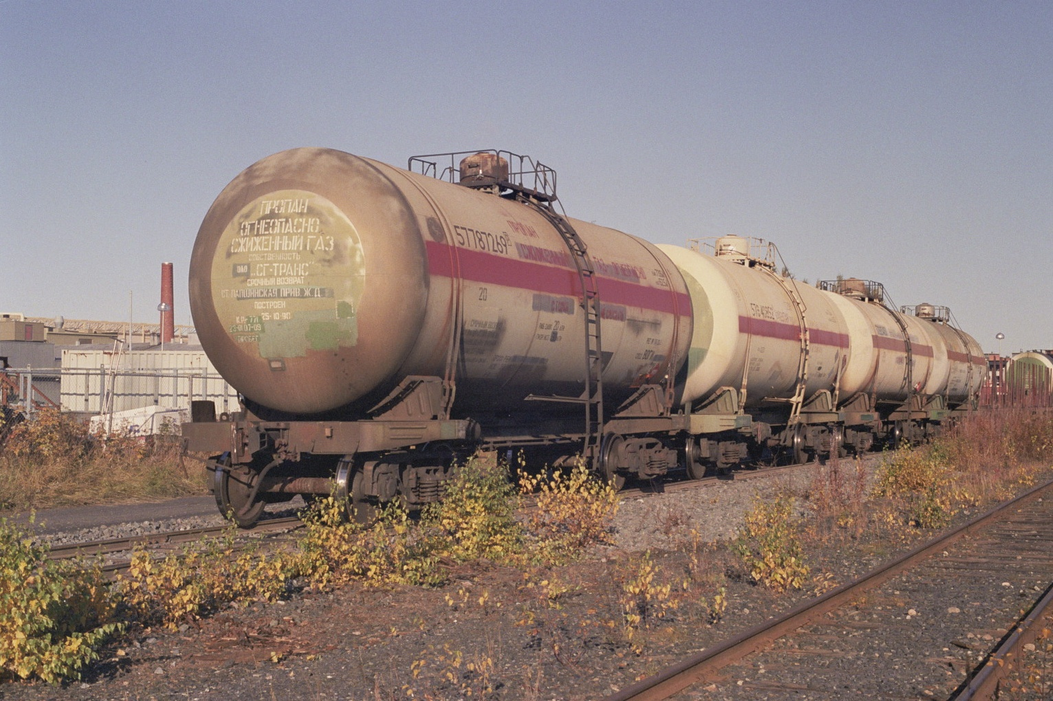 Russian-made (?) tank wagons in the VR freight yard in Oulu, Finland.